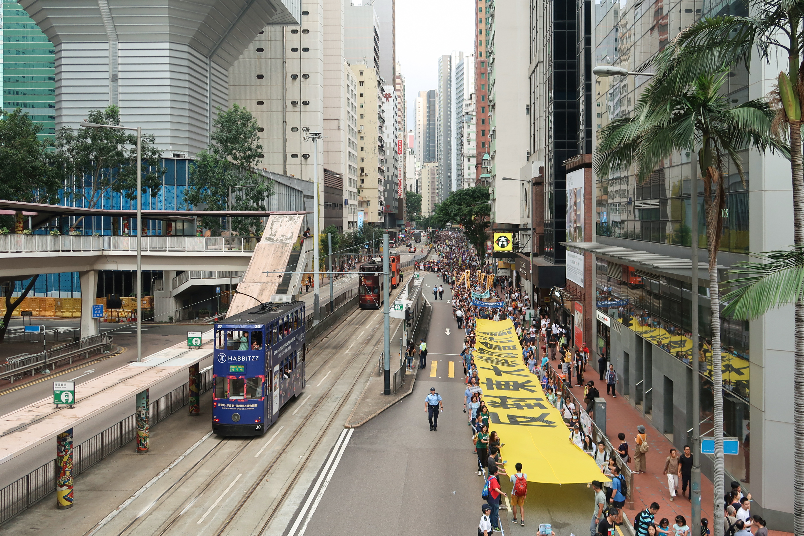 Lantau artificial island Protest in Wan Chai